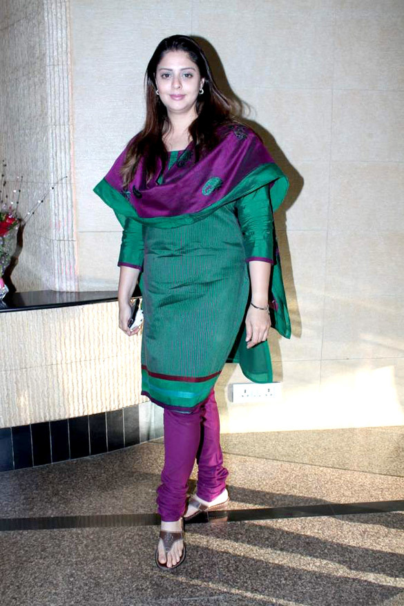 Shravan Kumar,Nagma, Akbar Khan From at RK Excellence Awards